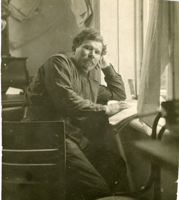 Photo of Leonid Aleksandrovich Chernyshyov from the collection of photographs and negatives of the Krasnoyarsk Museum of Local History, presumably made in his house between 1908 and 1910.